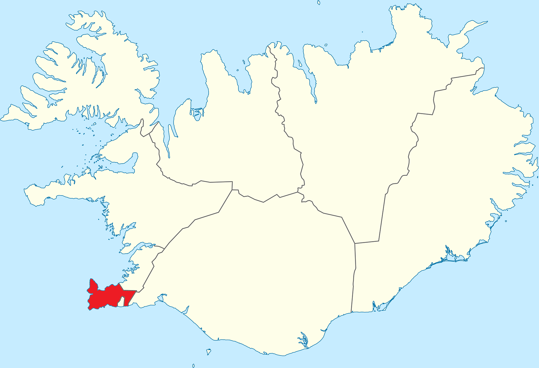 Region highlighted within Iceland as a whole.